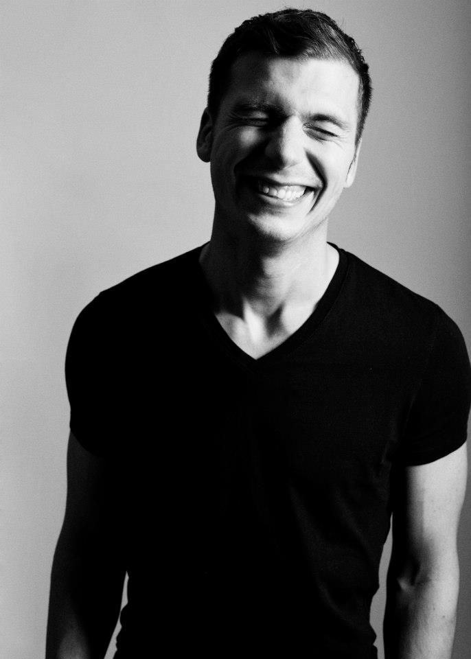 Munich, 2012